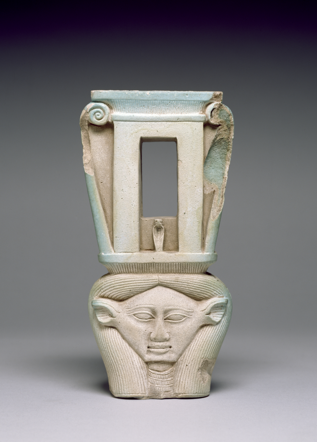 Depicted with cow features, the goddess Hathor was associated with sexuality, motherhood, and music. This sistrum, or rattle, is a masterwork of Egyptian faience, which is particularly fitting, as Hathor was also known as "mistress of faience."